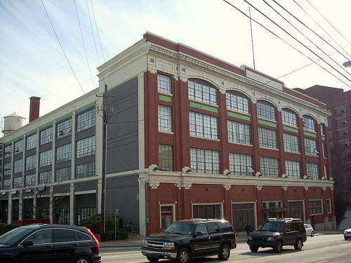 Ford Motor Company Assembly Plant Atlanta